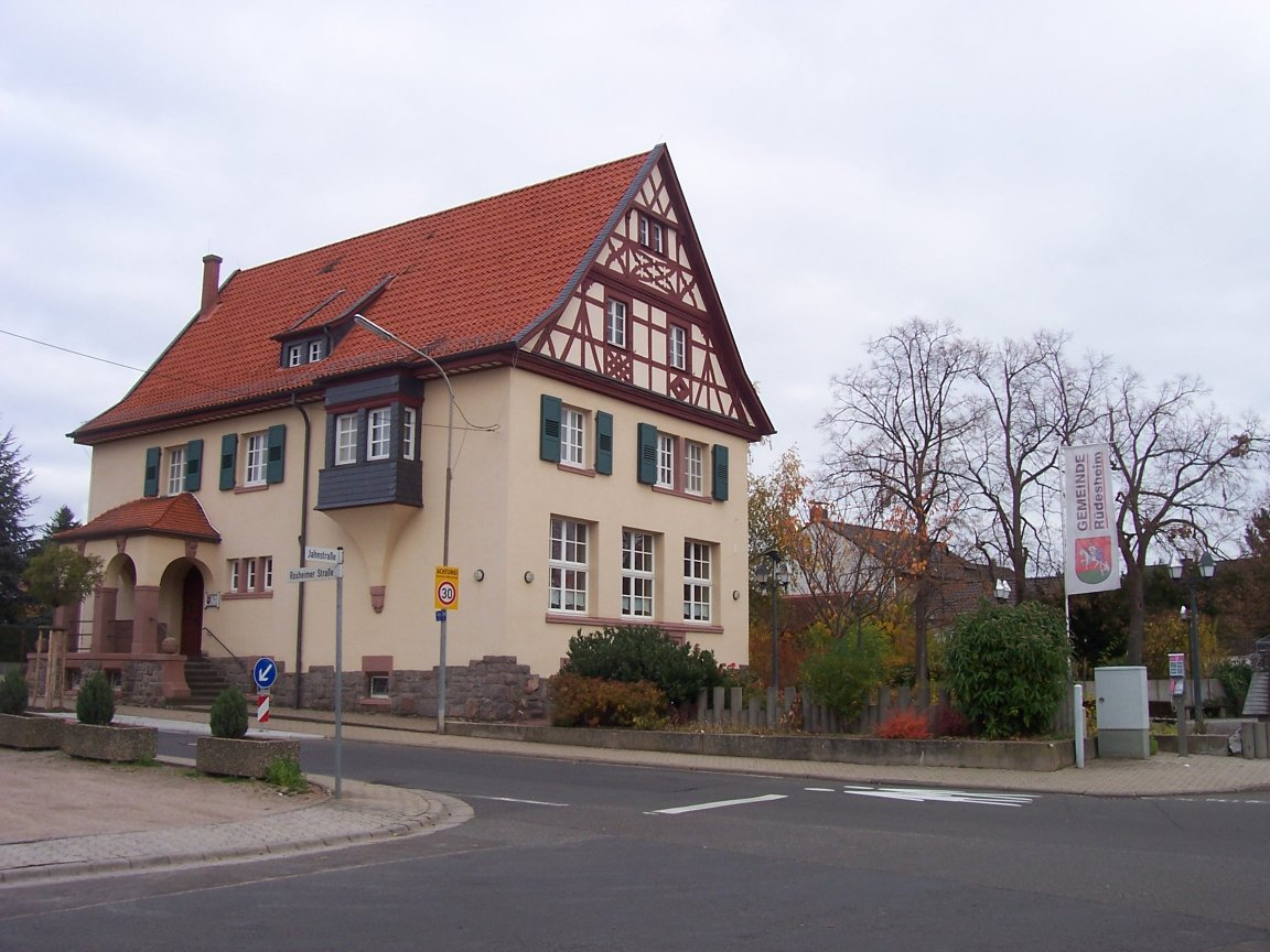 Rüdesheim in the district of Bad Kreuznach, in Rhineland-Palatinate, Germany.